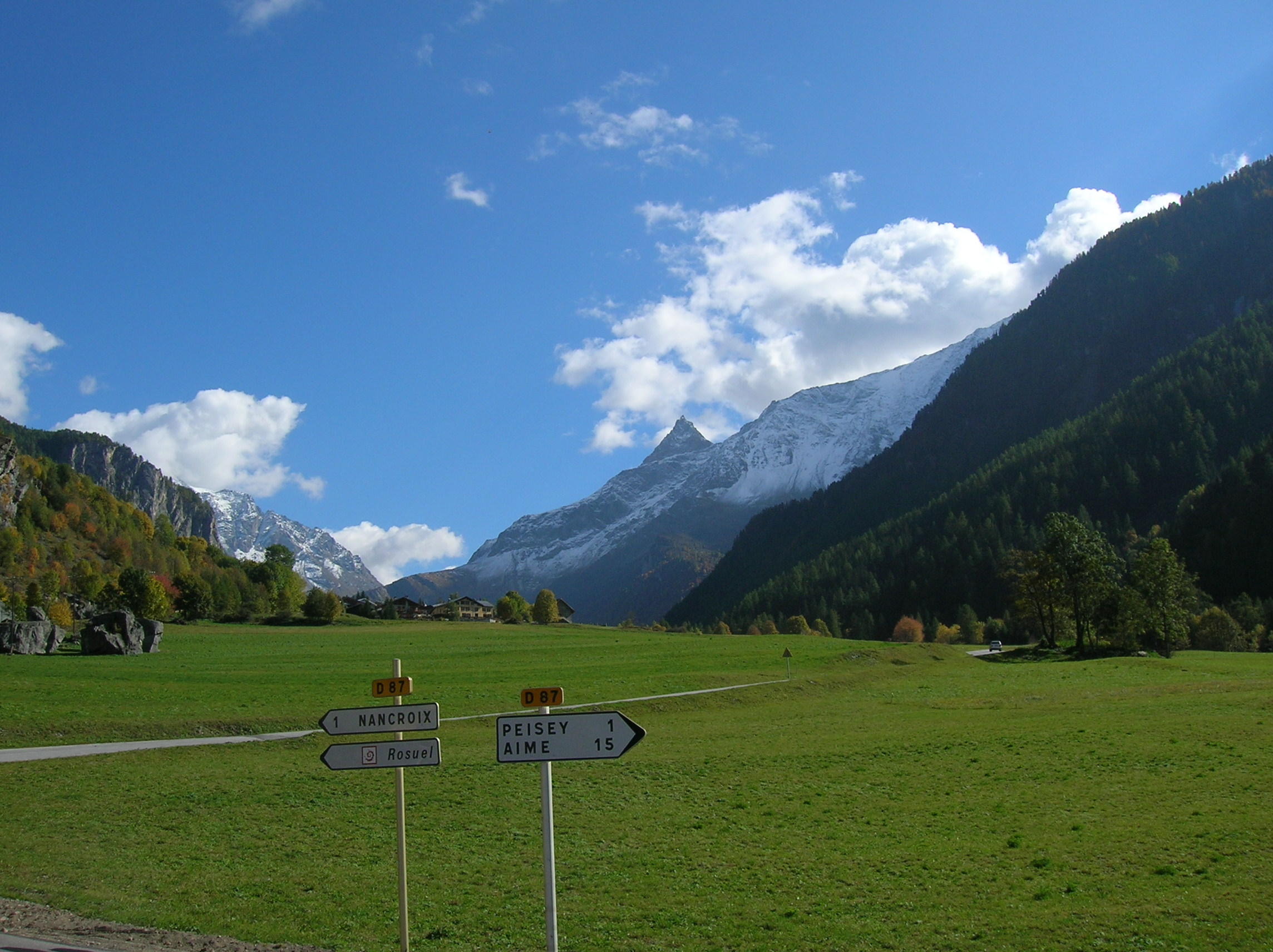 Peisey-Nancroix in Savoy (French Alps)